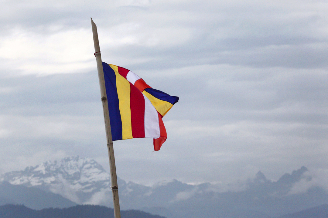 Buddhist prayer flag in Bhutan